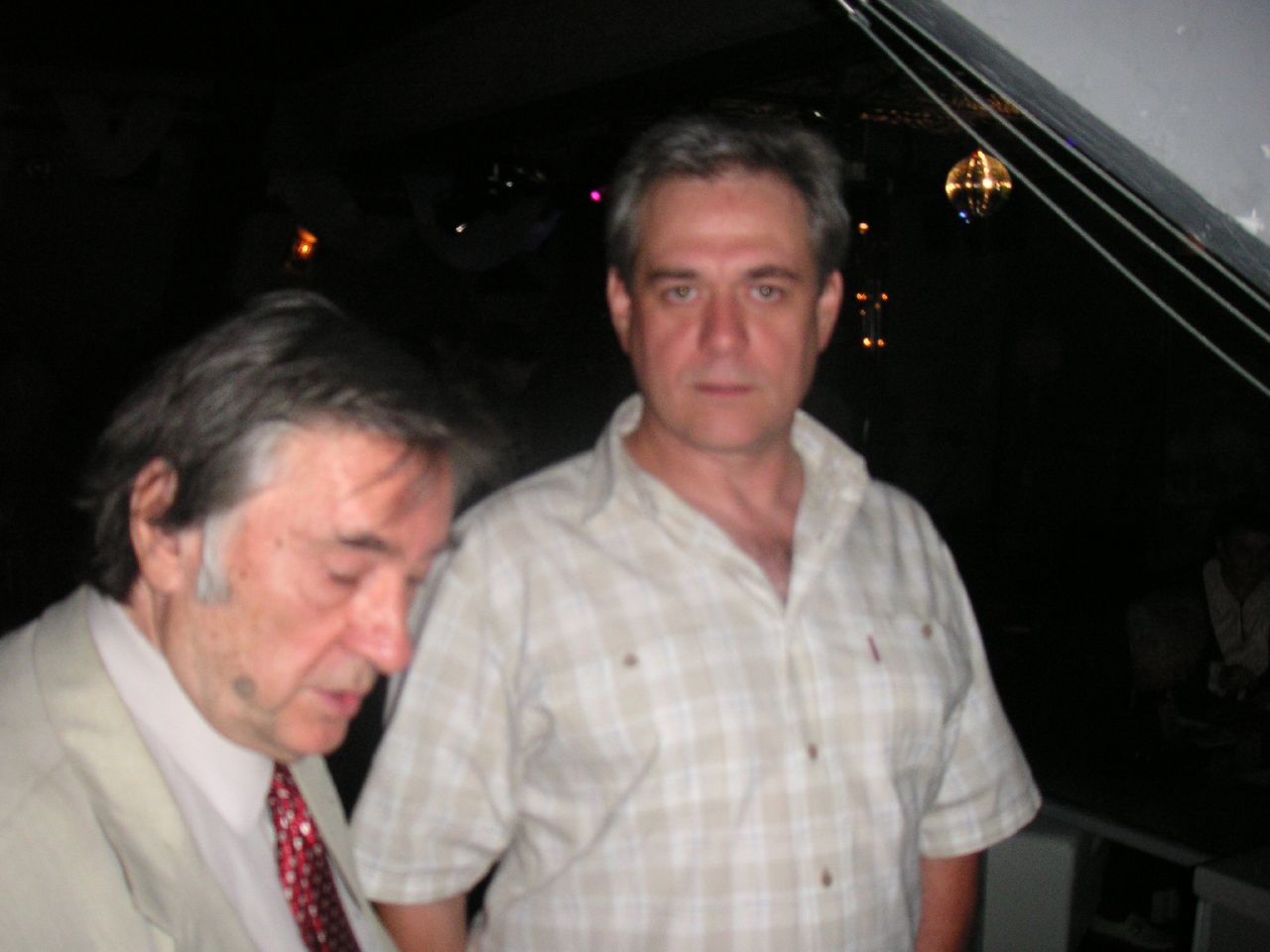 Sergey Dorenko (with Alexander Prokhanov on the left).